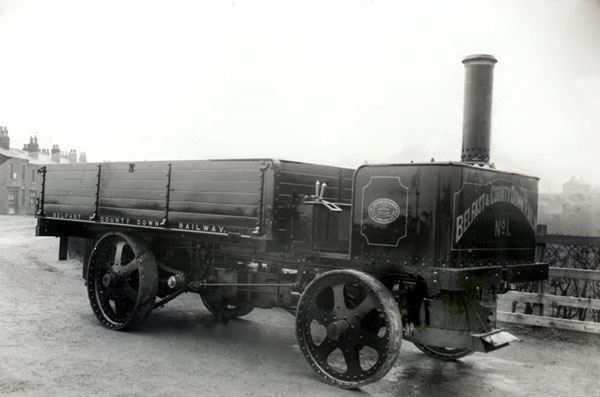 Ångdriven vagn Leyland. Belfast County Down Railway Photograph by: unknown Photo Nr: 22-420